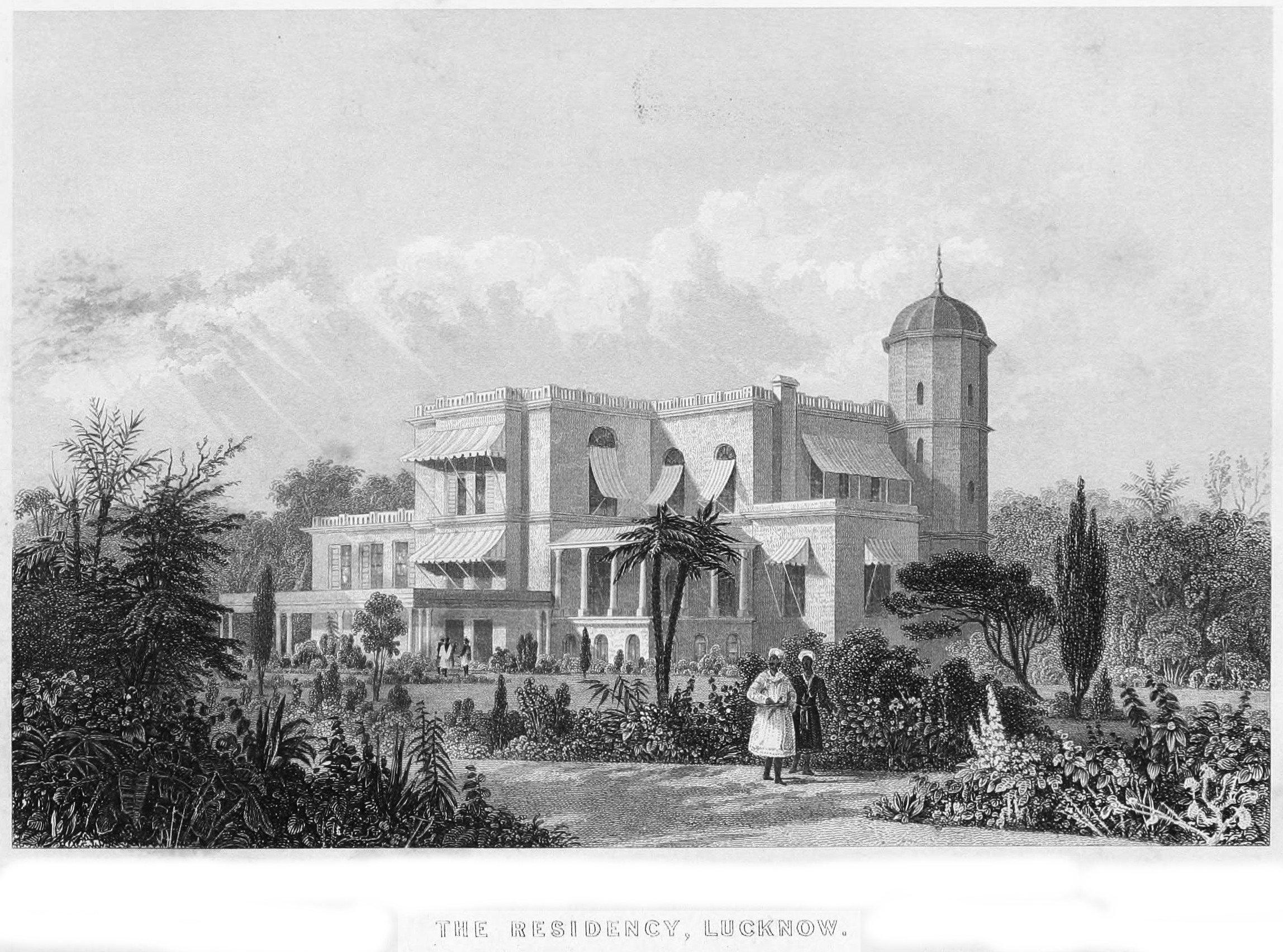 Lucknow residency